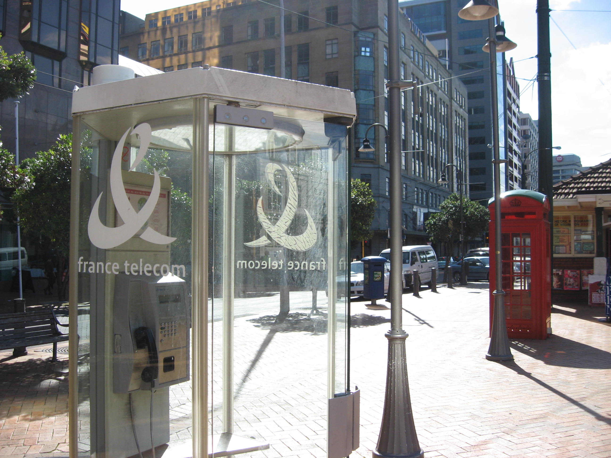 France Télécom phone booth in Wellington, New Zealand